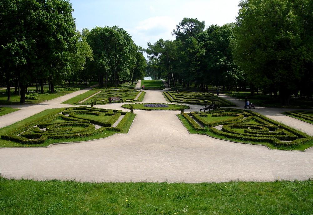 Palace Park - Lubartów